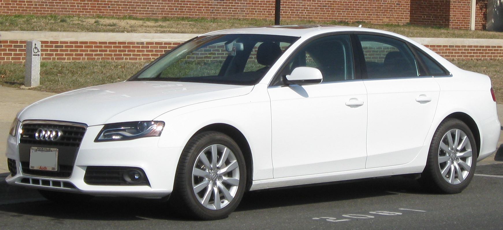 2009-2012 Audi A4 photographed in College Park, Maryland, USA.